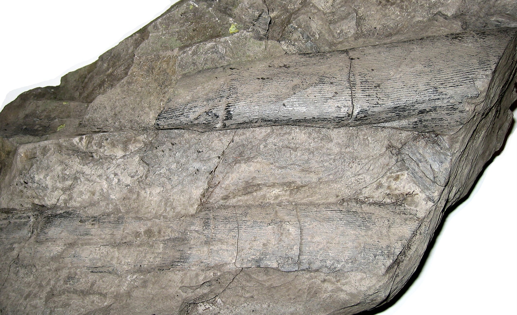 Fossil of Calamites-species, Carboniferous. Villers-Saint-Ghislain, Mons region, Belgium. Found by Tim Verfaillie on November 11, 2005. Picture is 30 cm wide.